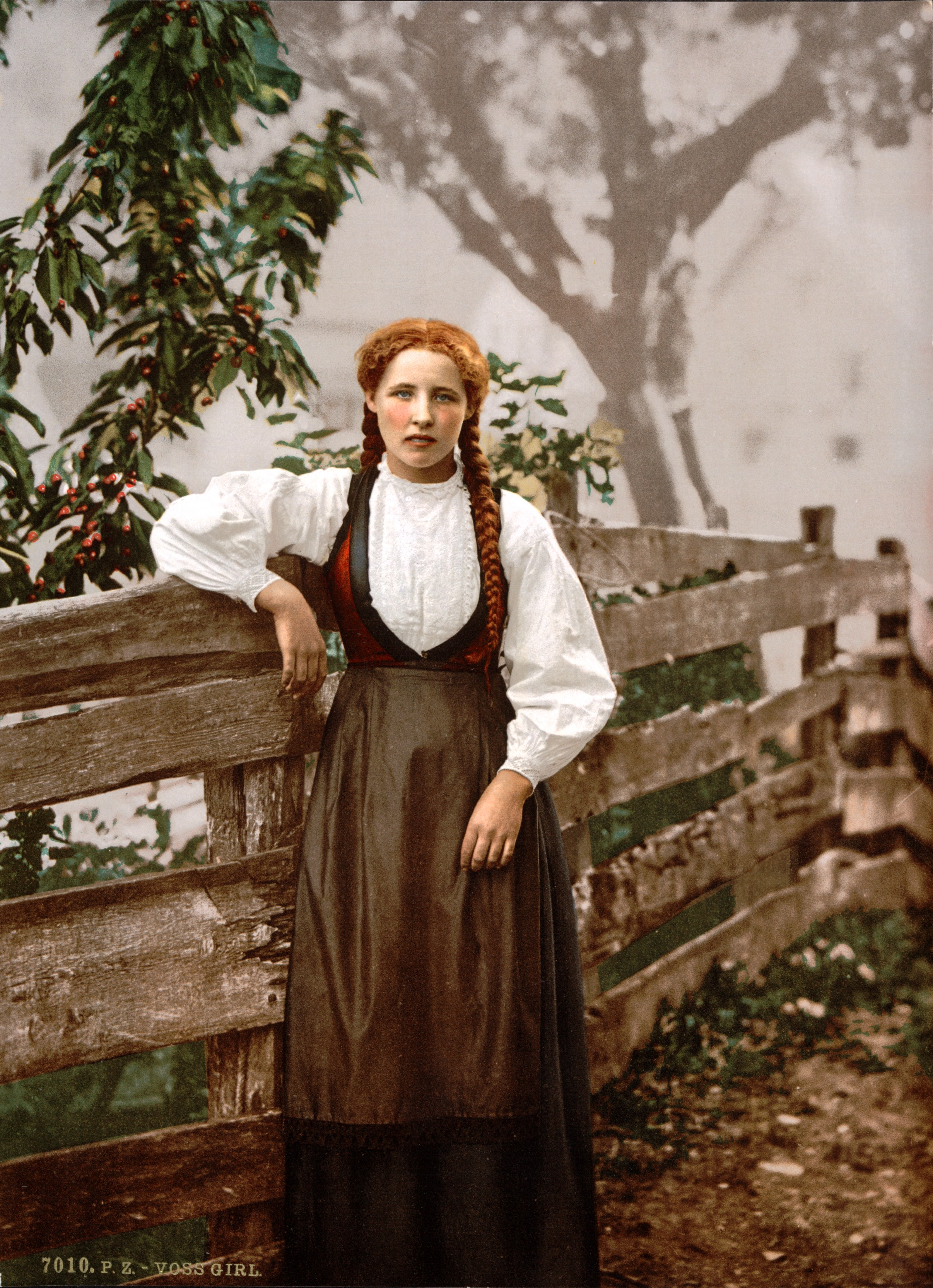 A girl of Voss, Hardanger Fjord, Norway MEDIUM: 1 photomechanical print : photochrom, color.